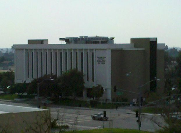 This is the main building of WSU law school as seen from a parking structure at CSUF across the street.